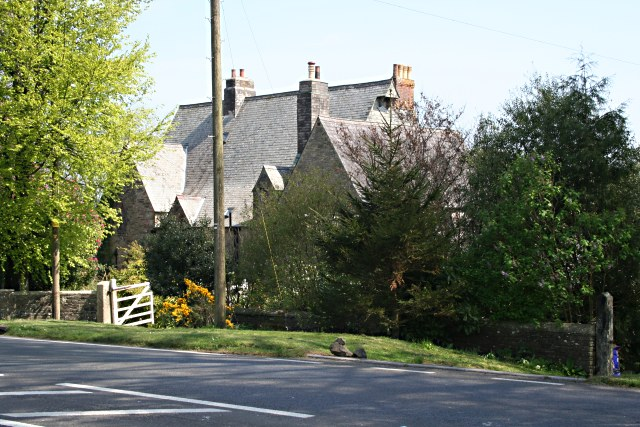 The Old Vicarage, St Ive This is seems more of a mansion than a vicarage. It's no wonder that poor hard-working parishioners often preferred to listen to Methodist lay preachers than the person who lived here. It is now a private residence.